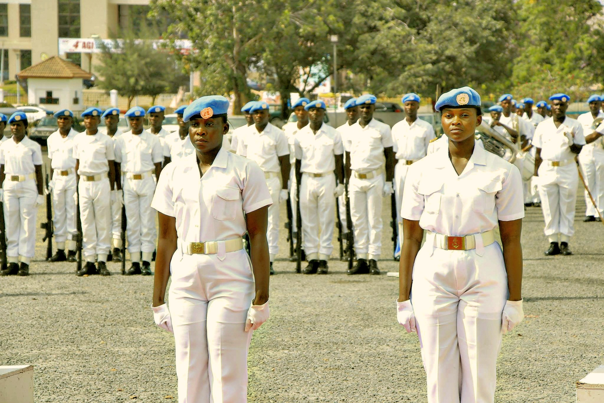 The guard of honour of the Ghana Military UN Peacekeeping Corps on the International Day of United Nation Peacekeepers on the 29th of May, 2016. Original caption: "Ghana has showed great leadership in UN Peacekeeping since 1960 when it sent its first troops under UN flag. Today, Ghana ranks 8th in the world for contributors of uniformed personnel to UN Peacekeeping operations."